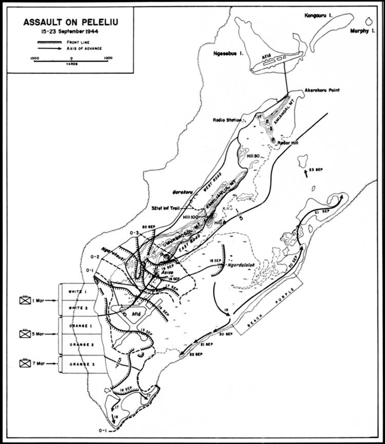 Map of initial landing beaches and lines of advance at Peleliu, September 15-23, 1944